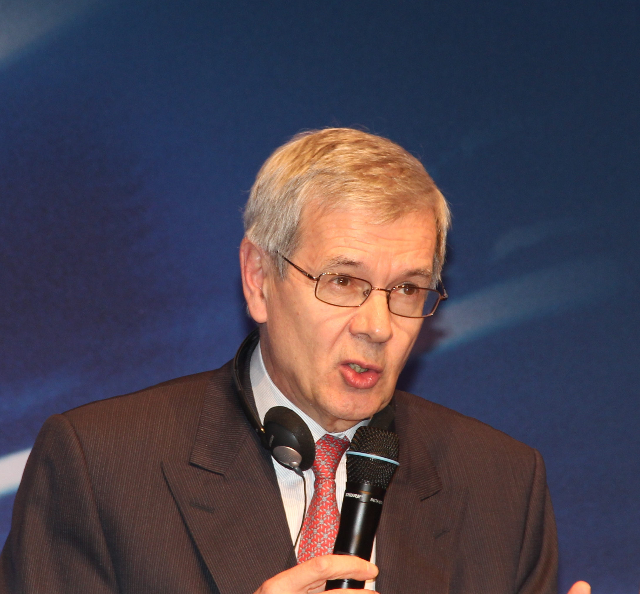 Philippe Varin - CEO of Automotive company PSA Peugeot Citroen, France